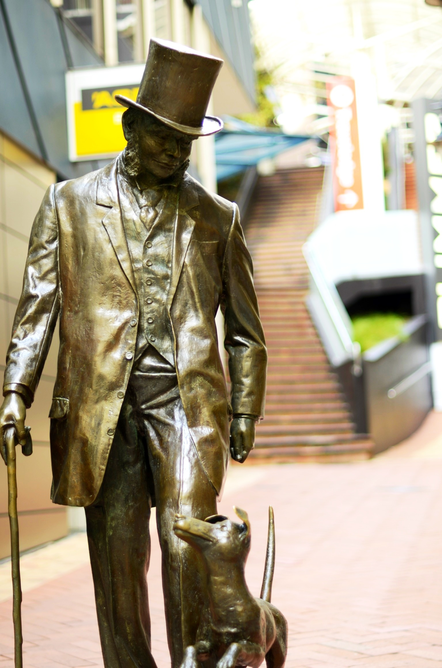 Shot during a visit to Wellington New Zealand, 14 April 2012. John Plimmer (1812–1905) has been called the Father of Wellington. He was a member of the Wellington Provincial Council from 1856 to 1857, the first Wellington Town Board (1863) and was on the Wellington City Council from 1870 to 1871. His principal public service was the organisation of the Wellington and Manawatu Railway Company between 1880 and 1886. The township (now a suburb) of Plimmerton on the Wellington - Manawatu Line built by the company was named after him. He arrived in Wellington from Shropshire, England on the ship Gertrude in 1841. As an entrepreneur in 1851 he purchased the stranded sailing ship Inconstant and converted the hull into a warehouse and one of the first piers in Wellington. It became known as "Plimmer's Ark", a centre of business in early Wellington, used as an auction house, customs office and lighthouse.